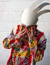 photo: Alex Bierk